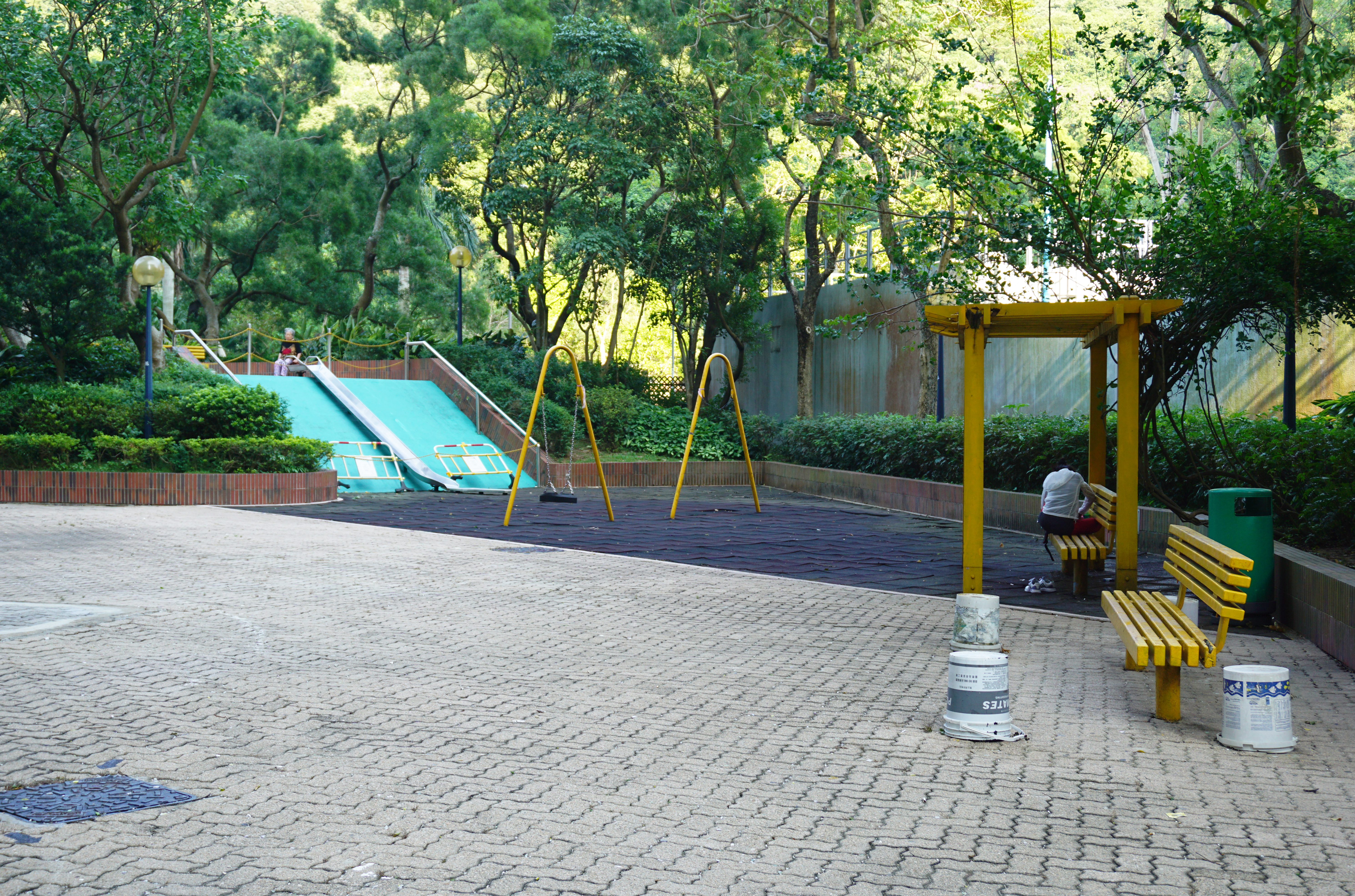 Yan Ming Court in Po Lam, Hong Kong.